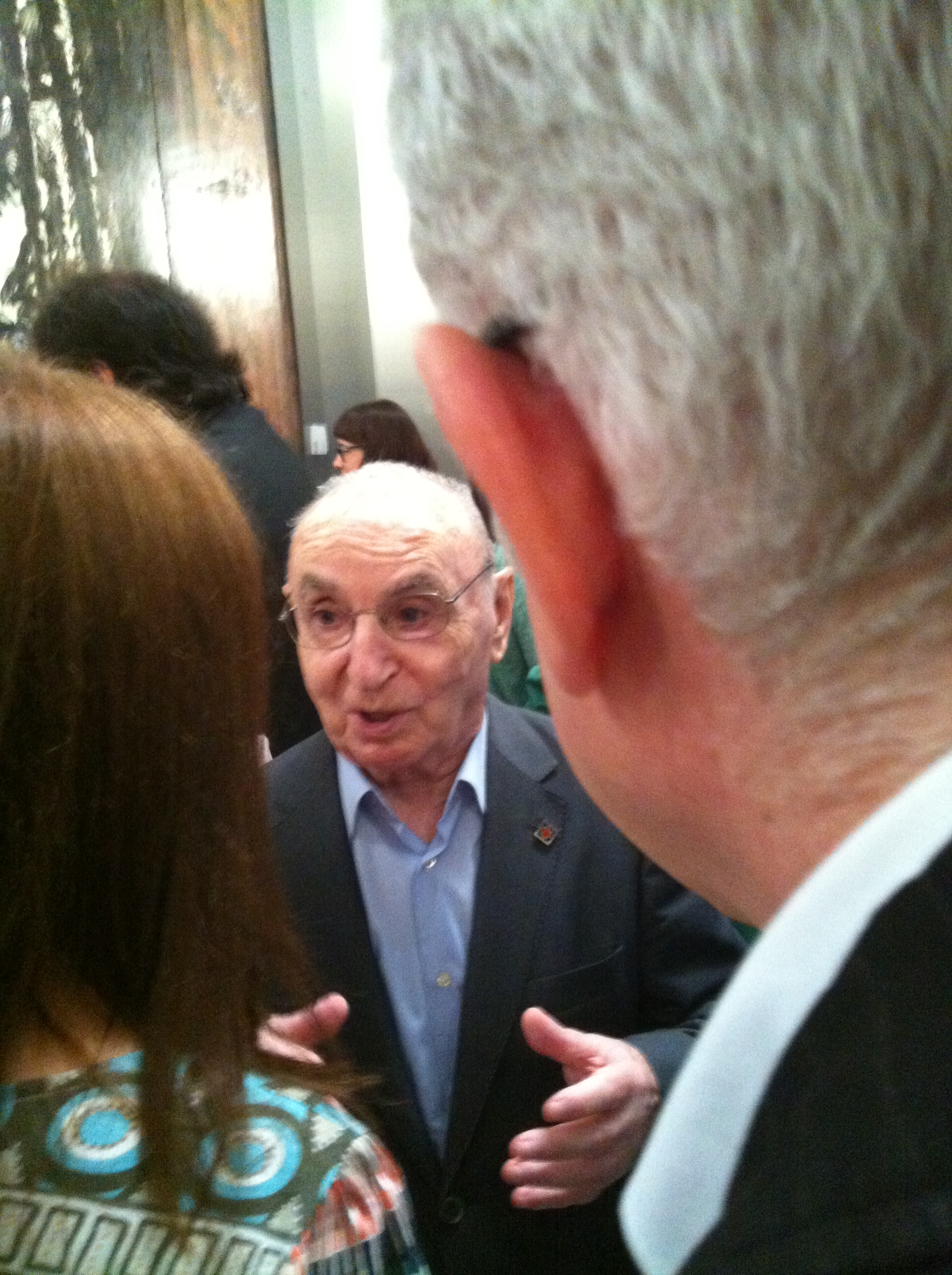 Joan Colom i Altemir, Catalan photographer, gave his collection to MNAC Barcelona museum.